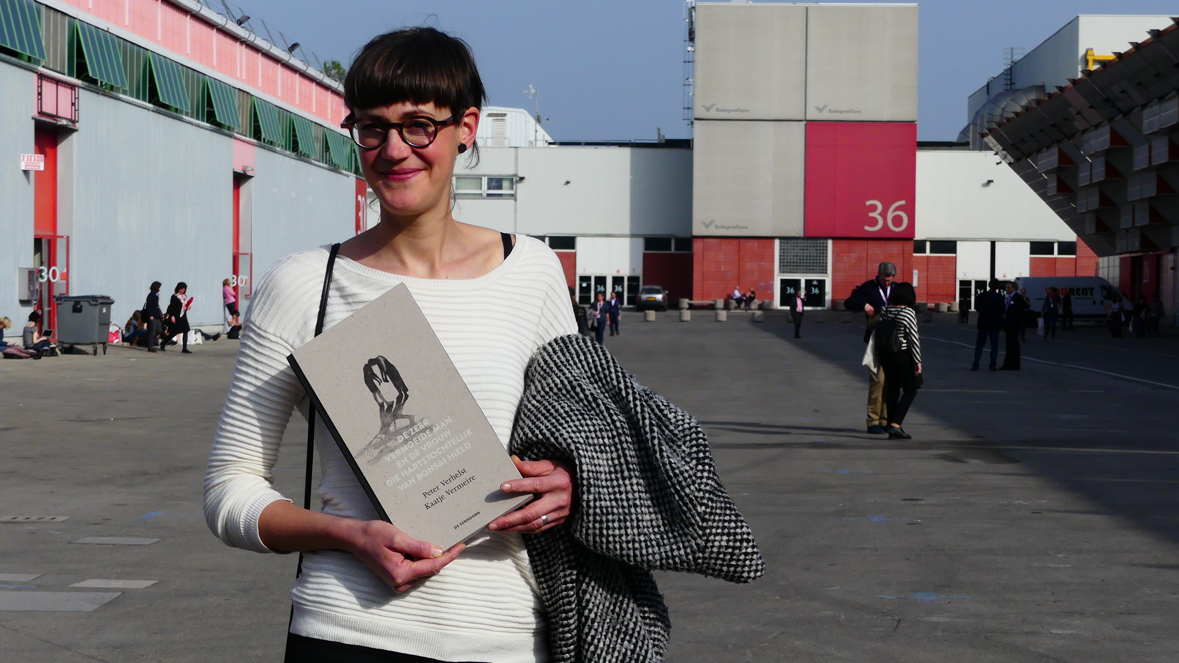 Kaatje Vermeire, Bologna Children´s Book Fair, Fair Area, April 5th, 2016